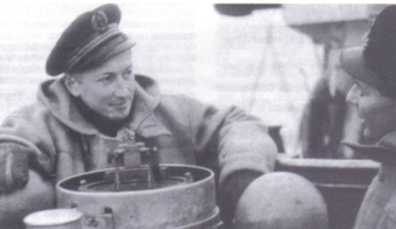 Amiral Gérard Daille mon oncle en 1929